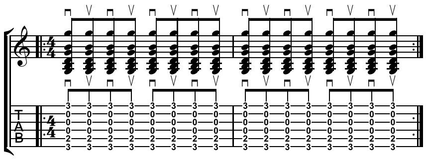 Guitar strum, all eighths on open G chord. Created by Hyacinth (talk) 22:31, 31 October 2010 using Sibelius 5. See: File:Guitar_strum_on_open_G_chord_base_pattern.mid